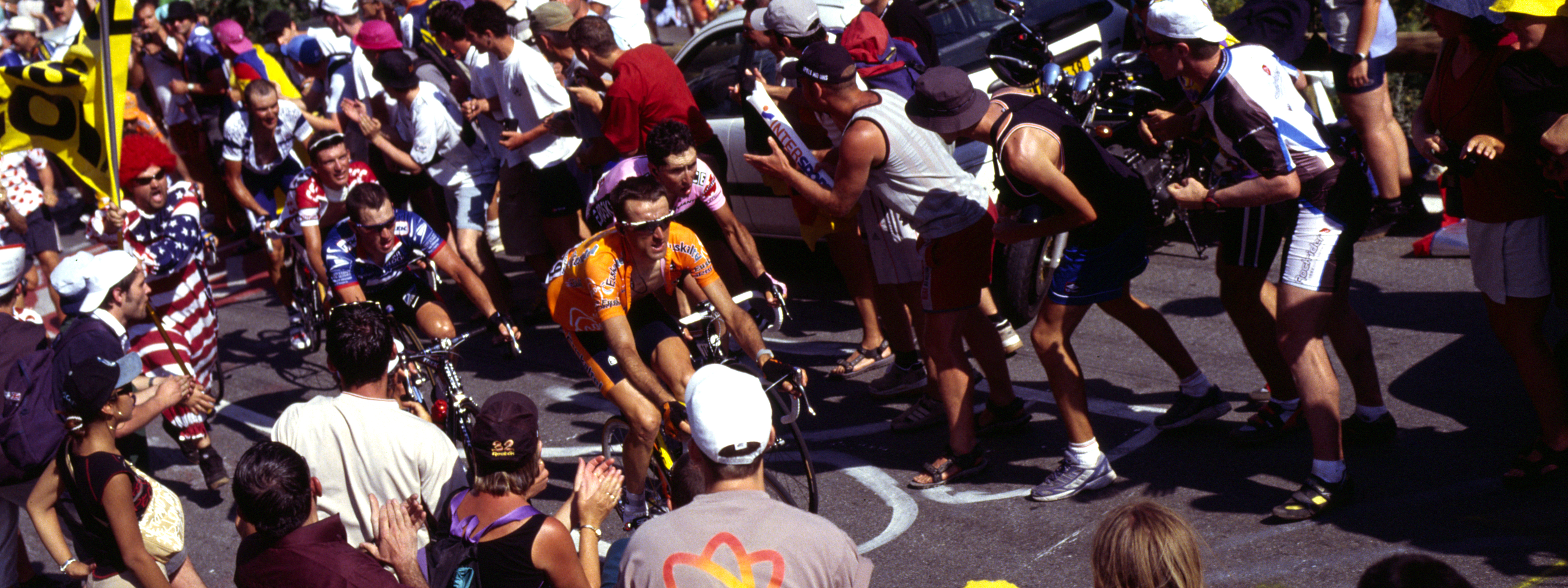 The 2003 Tour de France on Alpe d'Huez, with Lance Armstrong, Tyler Hamilton, Ivan Basso, Haimar Zubeldia, Joseba Beloki and Roberto Laiseka.